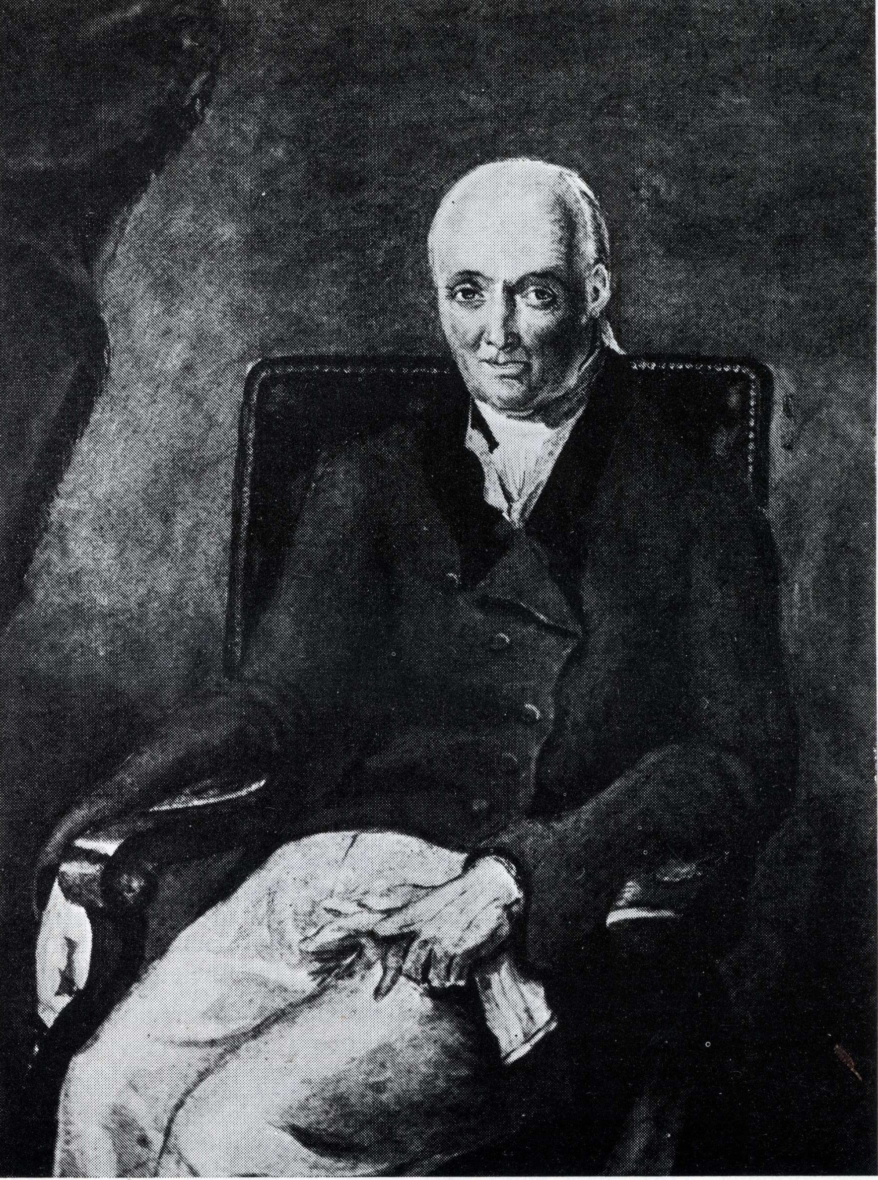 Christopher Blackett (1751-1829) Squire of Wylam, Northumberland, 1800-1829. The original is in the Science Museum collection; the volume with the reproduction is in the collection of the North of England Institute of Mining and Mechanical Engineers and has been used with their permission. The portrait clearly dates from before the subject's death in 1829; had the author lived another 100 years, the copyright on the portrait would have expired in 1999.